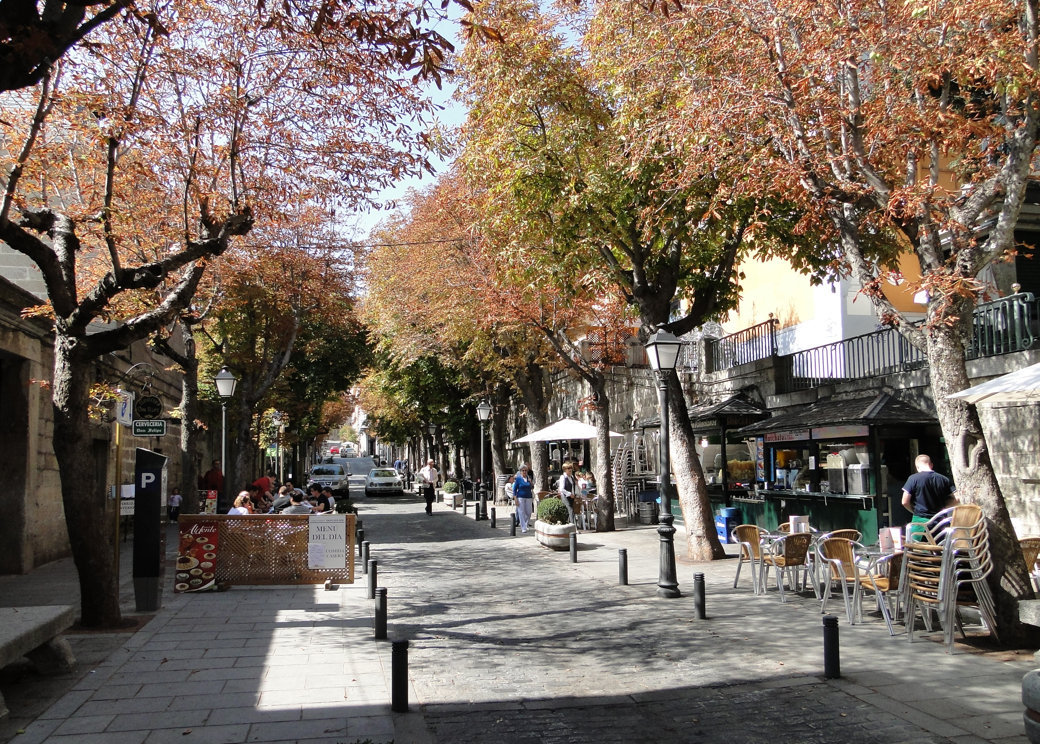 Calle Floridablanca in San Lorenzo de El Escorial, Spain